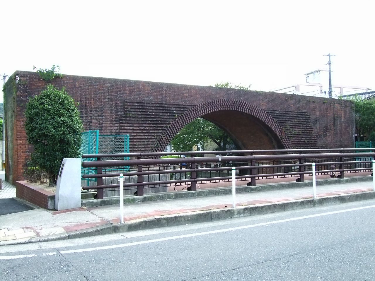 Chayamachi Bridge, The ruin of Okura Line(between Kokura Station and Okura Station), Yahata-Higashi Ward, Kitakyushu City, Fukuoka, Japan